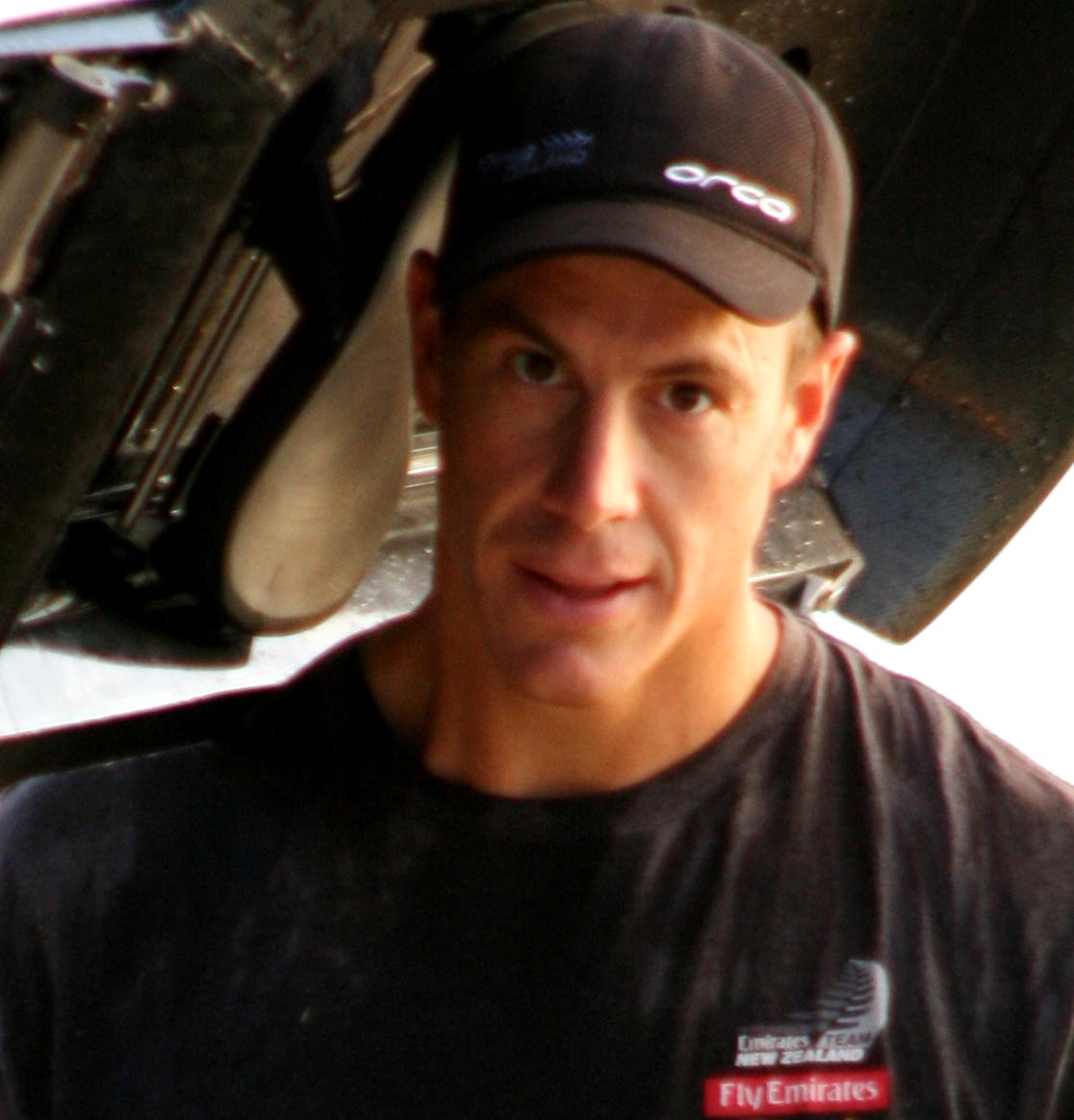 Rob Waddell at the North Island Club Championships on 2 February 2008.